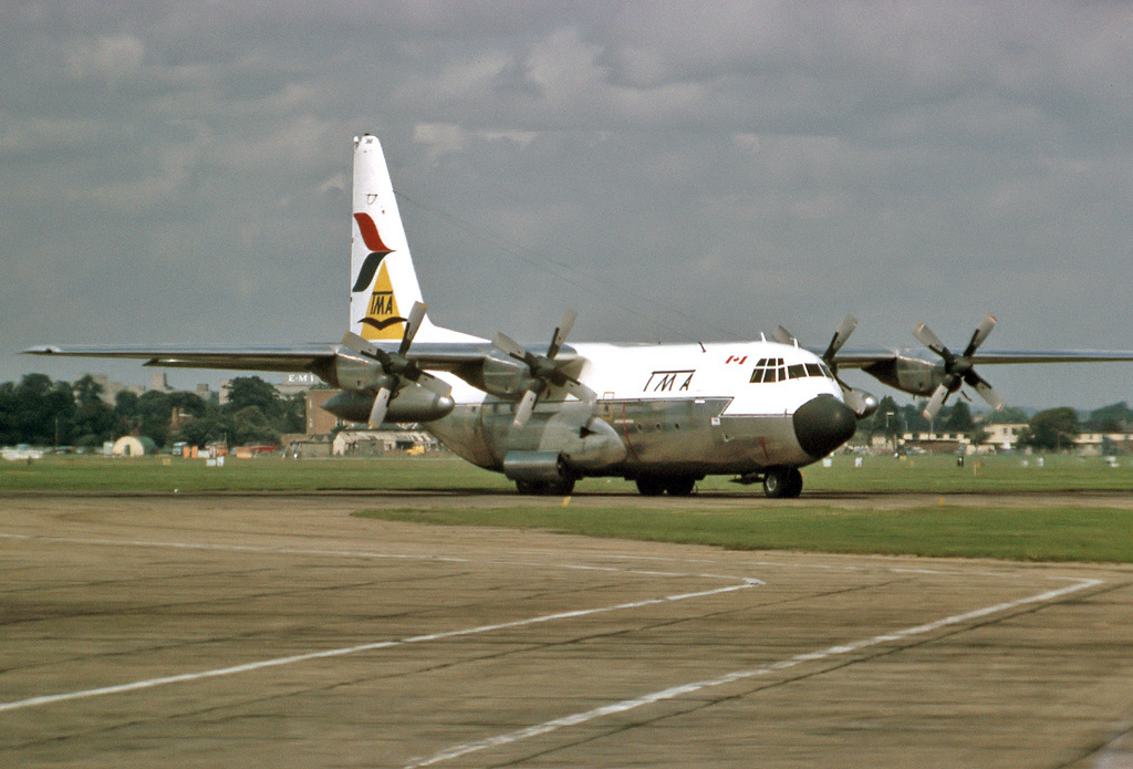 Pacific Western Airlines Lockheed L-100-20 Hercules at Heathrow. At the time the aircraft was leased to TMA Trans Mediterranean Airways and carries the logos and titles of the Lebanese airline.